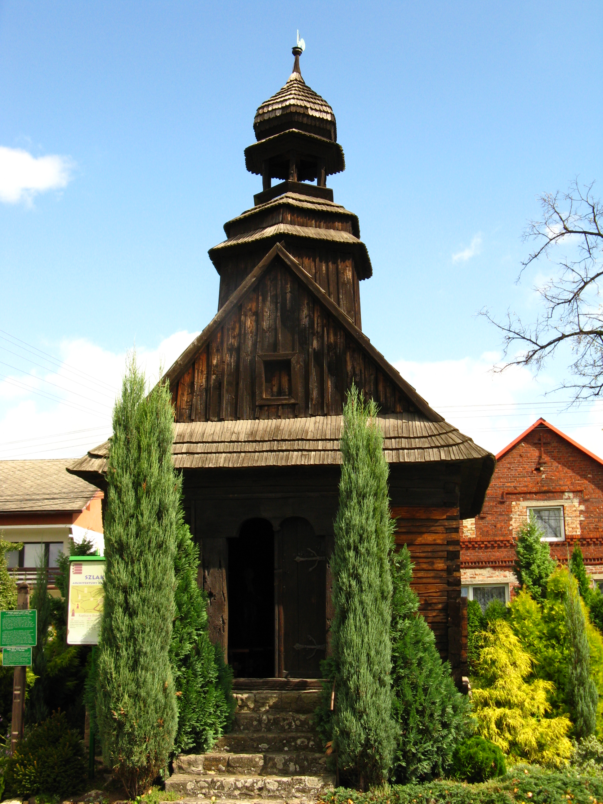 Wooden chapel i Buków in the Polish Silesia